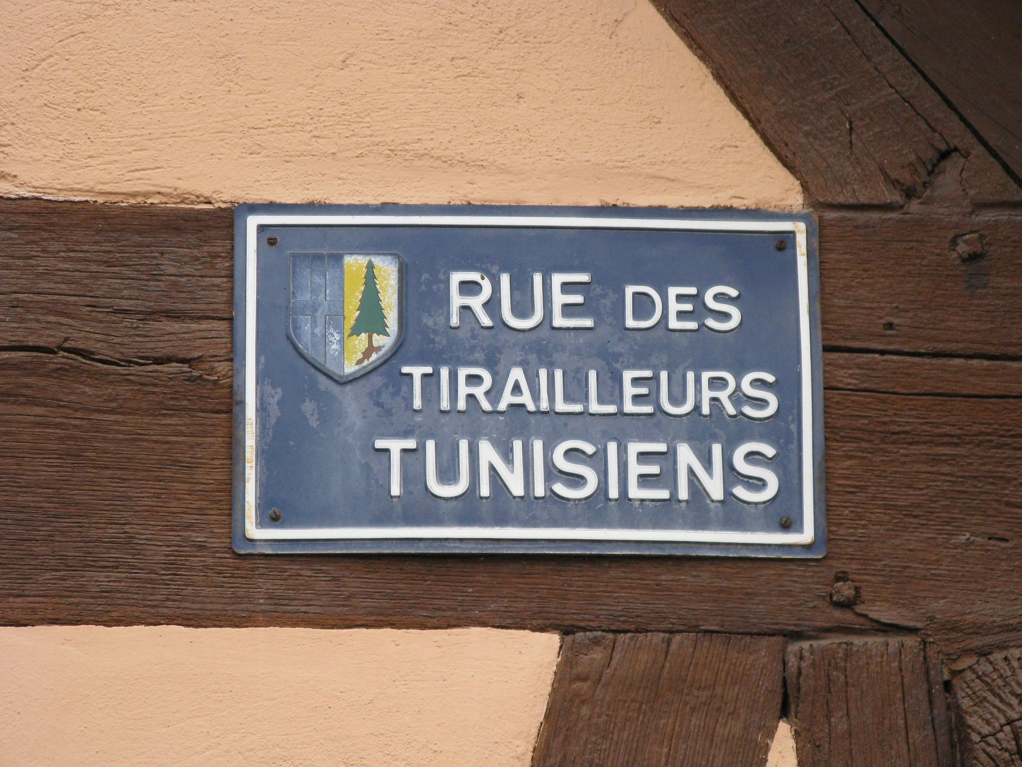 The "Rue des Tirailleurs Tunisiens" in Scheibenhard (France), - is named in honor of the Tirailleurs Tunisiens who liberated this french village in march 1945.